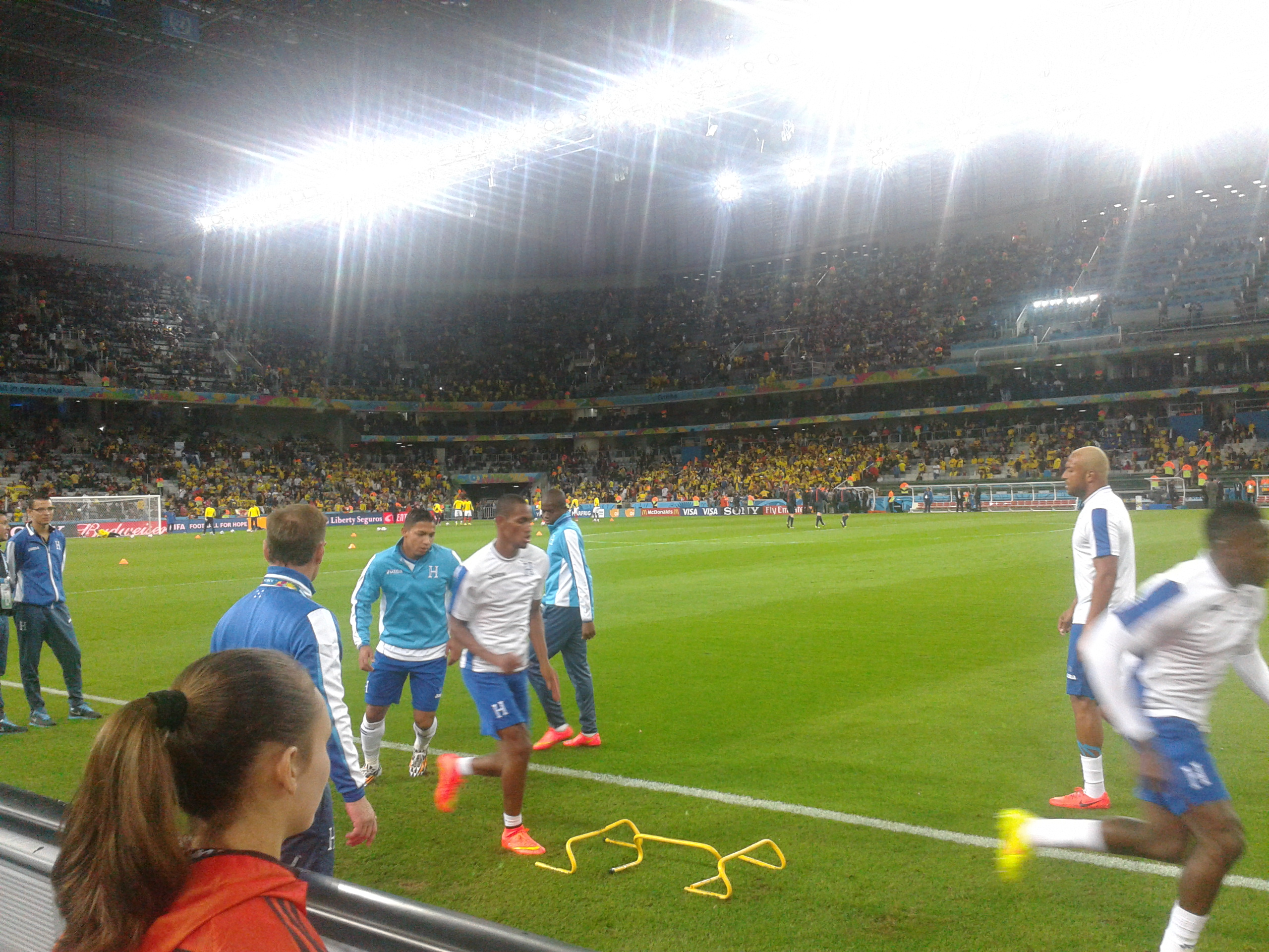 Honduras and Ecuador match at the FIFA World Cup (2014-06-20), Estádio Joaquim Américo Guimarães, Curitiba, Paraná, Brazil.